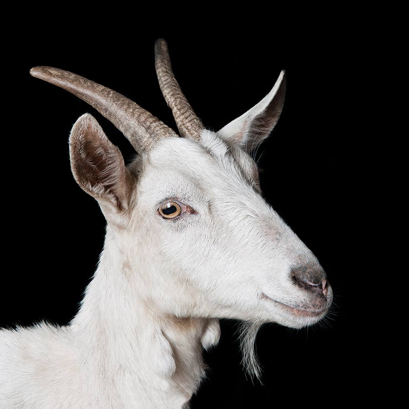 The goat